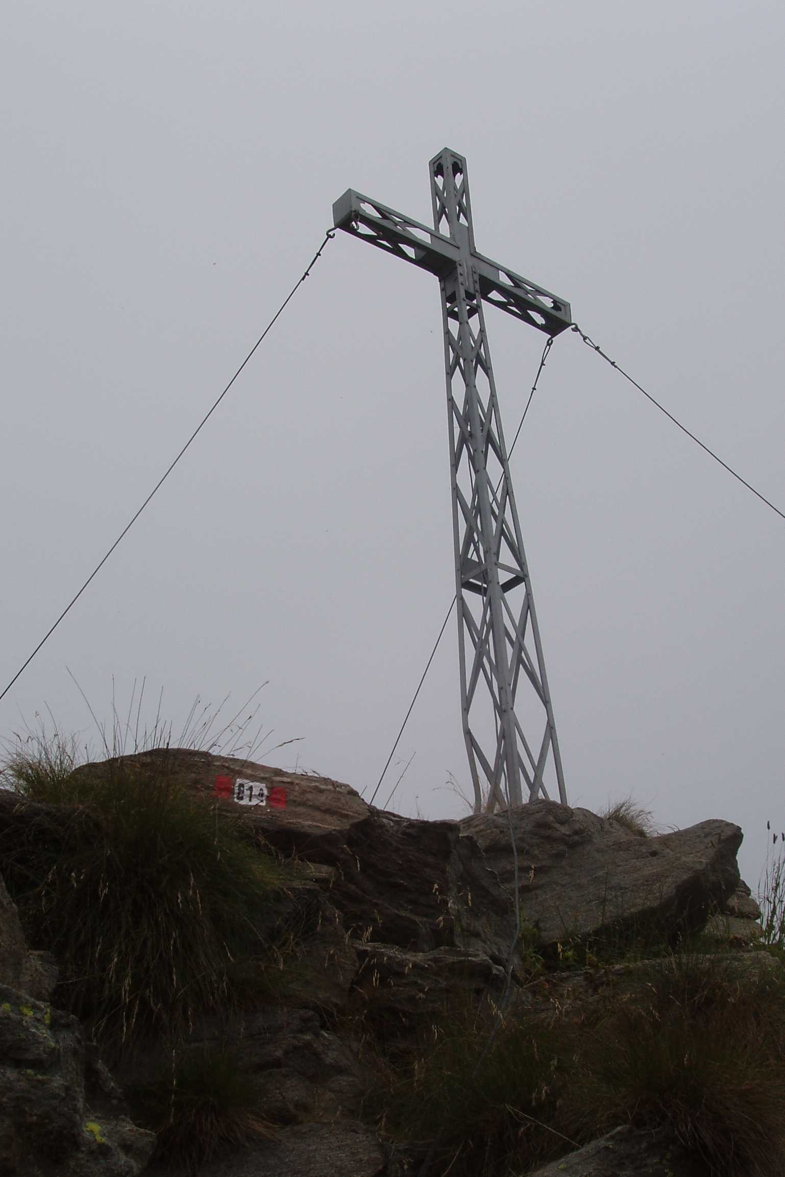 The cross on the top of Mount Tovo (Biella, Piedmont, Italy)